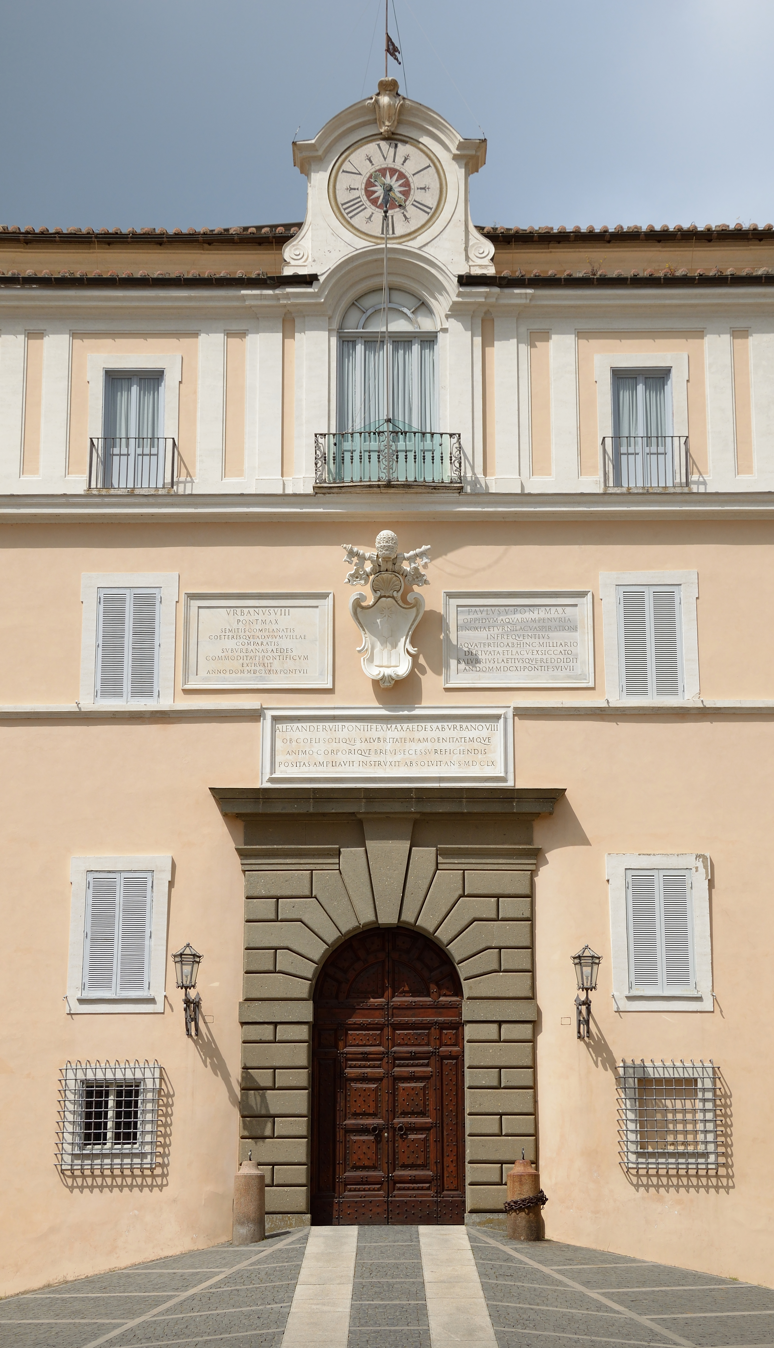 Pontifical Palace (Castel Gandolfo).jpg